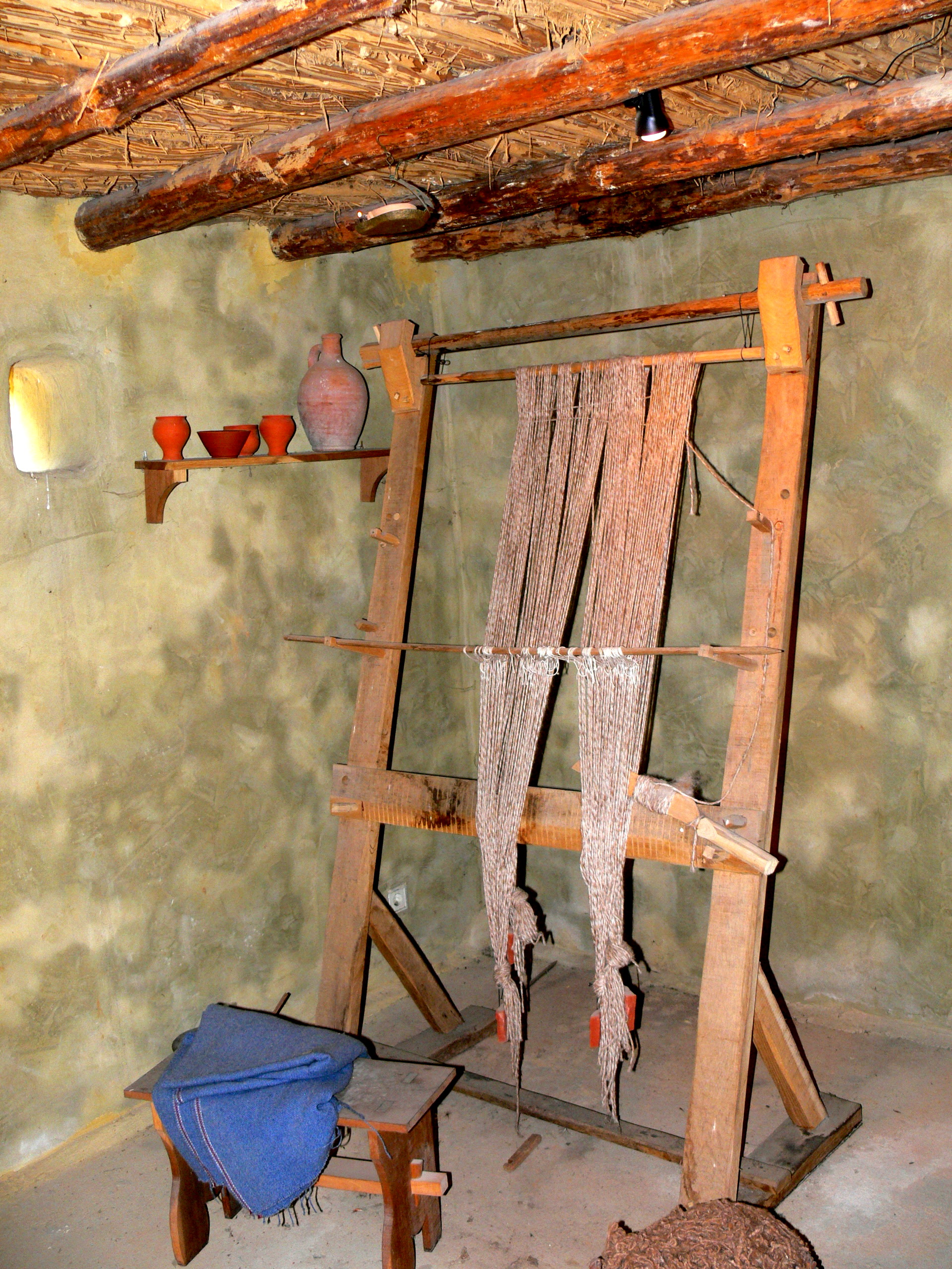 Bible open air museum in Nijmegen. Beith Juda Jewish Village: Antique loom